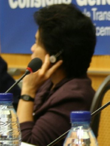 Saumura Tioulong, Cambodian MP and member of the General Council of the Transnational Radical Party.